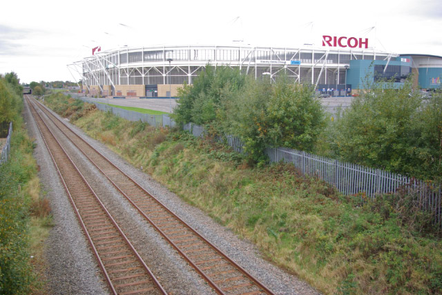 Ricoh Arena The Ricoh Arena was opened in August 2005 on the site of a former gas works as part of an effort to regenerate north Coventry. A new station to serve the stadium on the Coventry - Nuneaton line has been proposed.